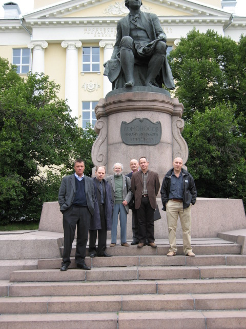 Grushin Seminar 2006 Reunion